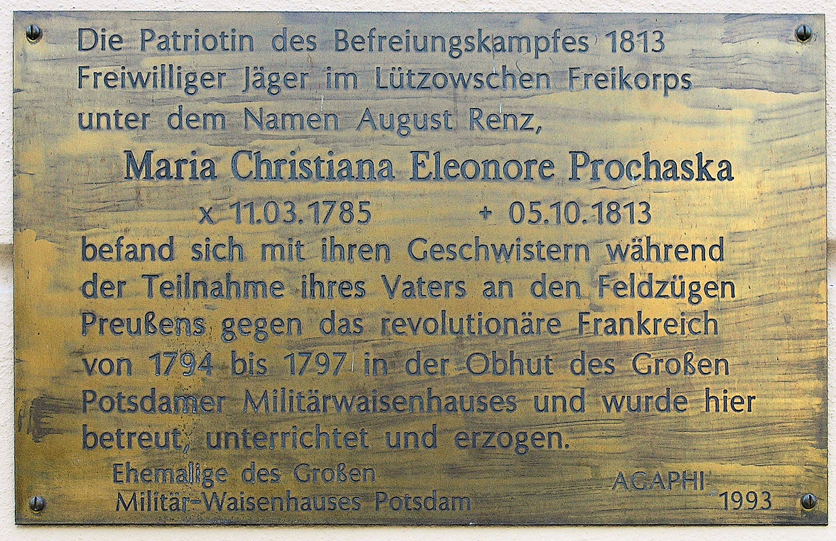 Memorial plaque, Eleonore Prochaska, Lindenstraße 34, Potsdam, Germany Koordinate:52°23′47.1″N 13°3′3″E / 52.396417°N 13.05083°E